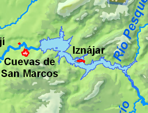 Basin of Genil river